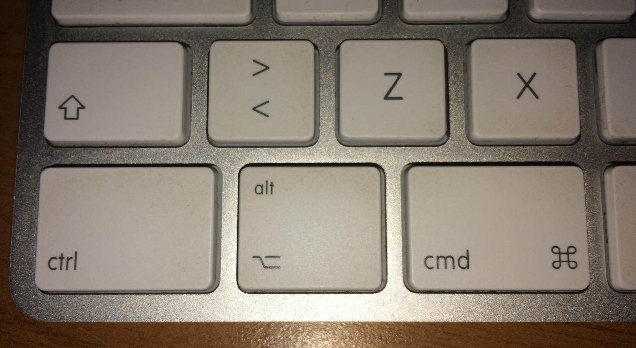 Modifier keys on an Apple keyboard: from left to right, "CTRL" (Control), "ALT" (Alternate), "CMD" (Command)